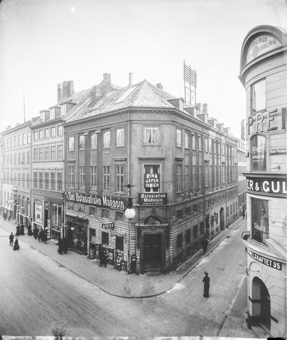 Løve Apotek's old building at Amagertorv 33 in Copenhagen, Denmark.